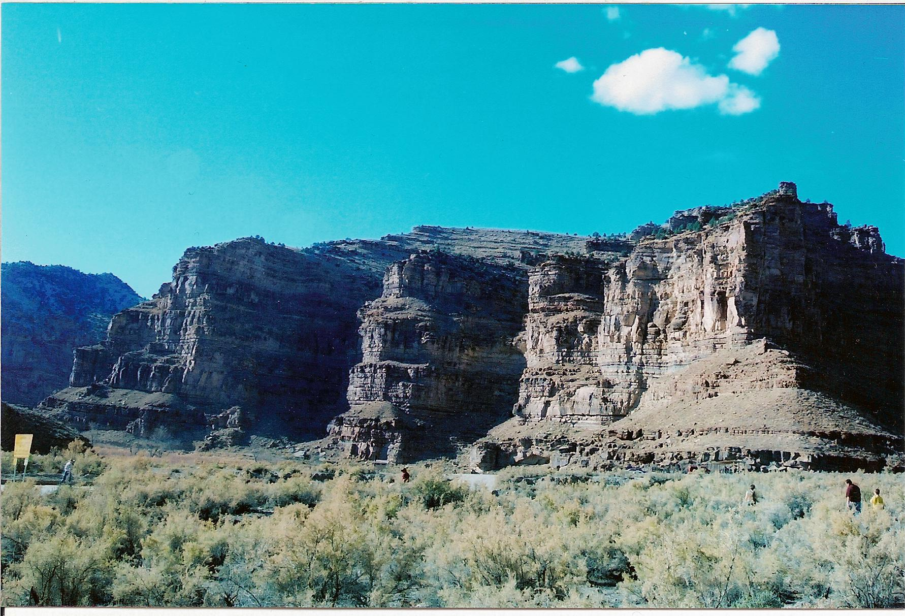 The Daddy Canyon Complex in Nine Mile Canyon, Utah.